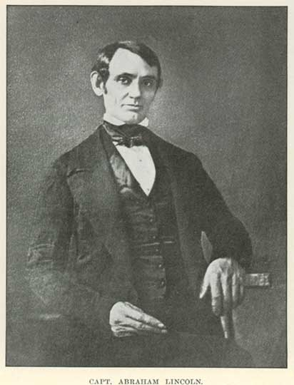 Captain Abraham Lincoln around the time he served in the Illinois militia during the Black Hawk War.